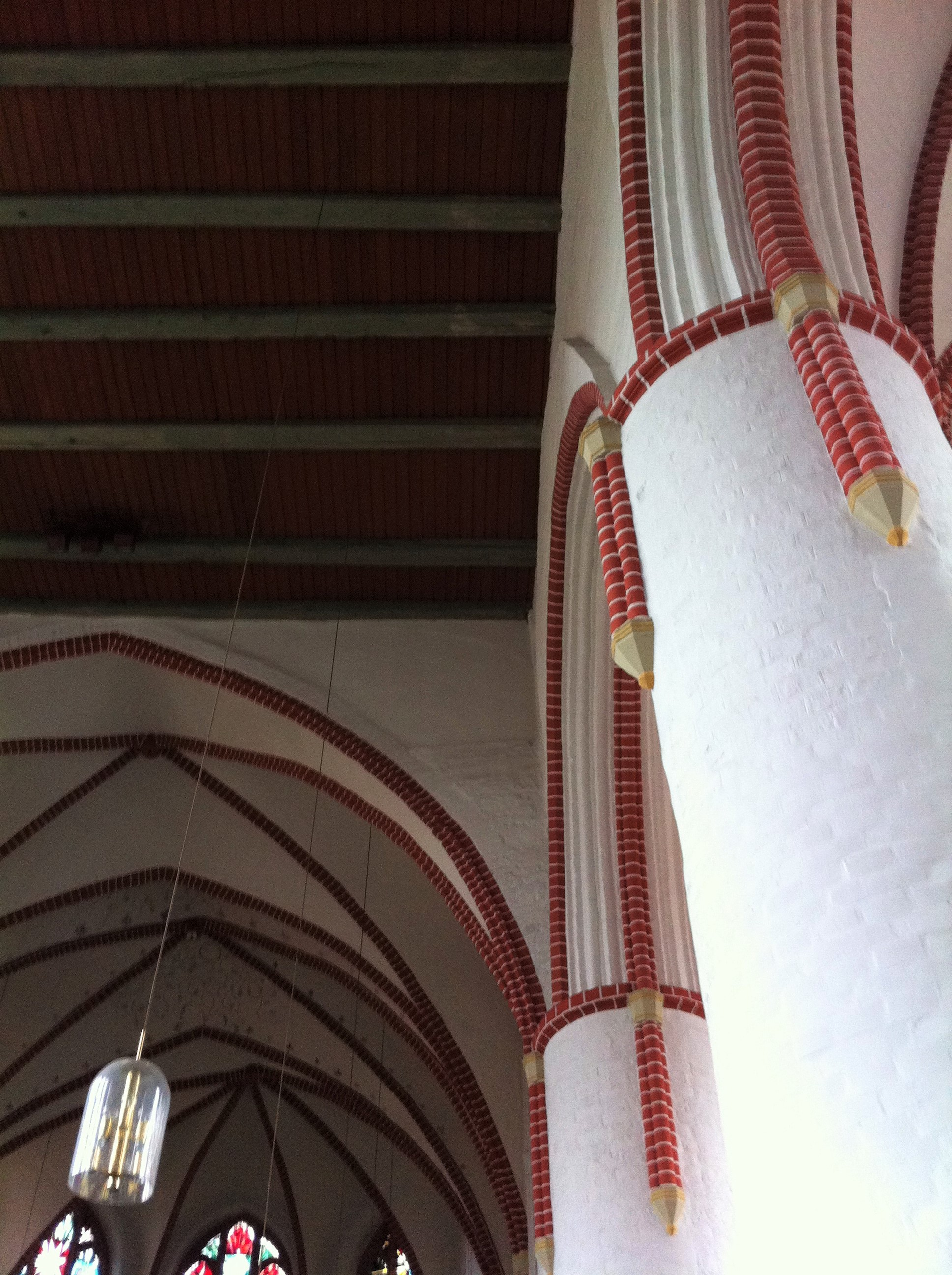 View of the vault of the side aisle and the wooden ceiling of the main aisle of St Marien Winsen (Luhe). The vault of the main nave was never completed.